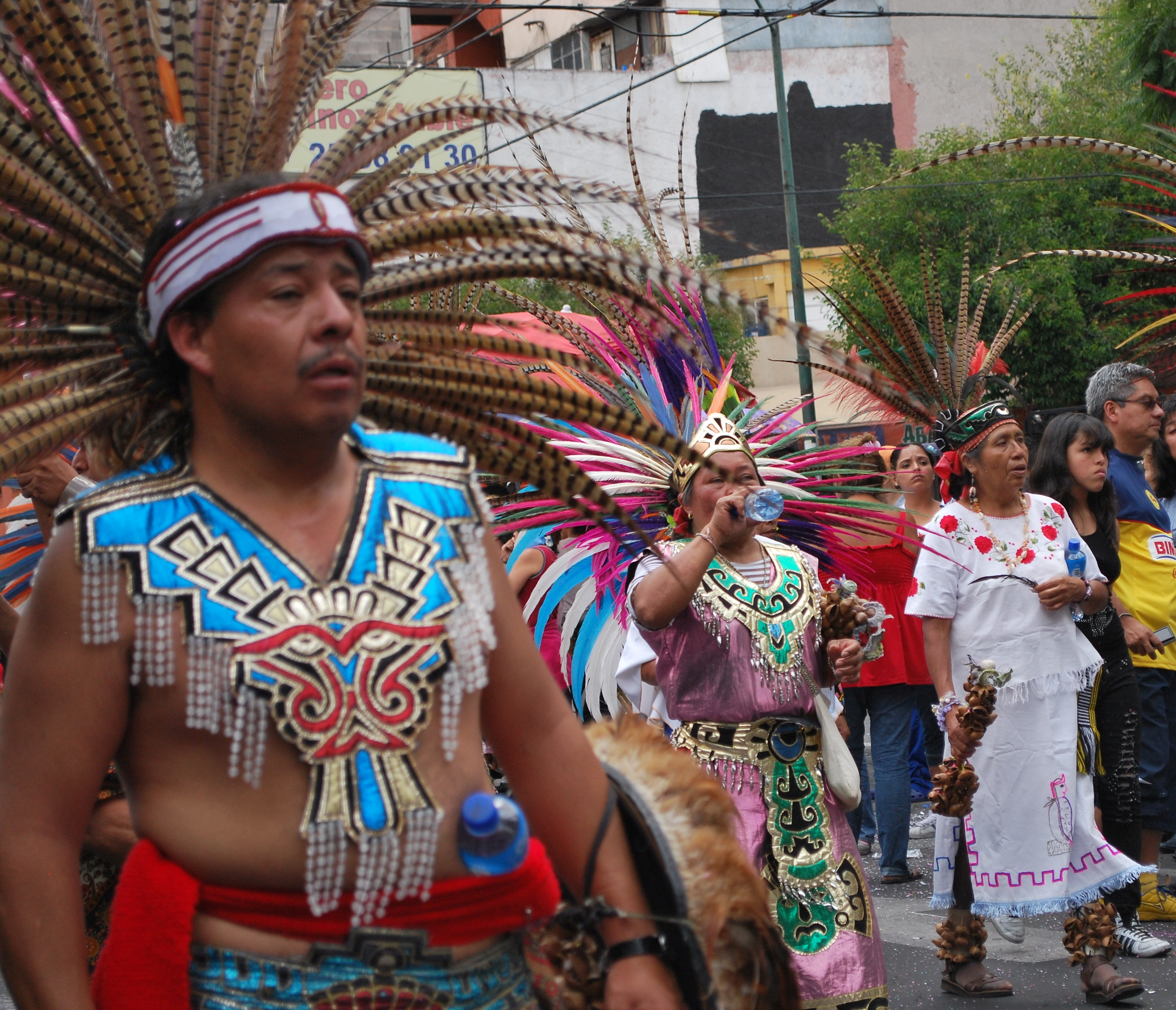 Dancers at the Feast of the Virgin of San Juan de los Lagos in Colonia Doctores, Mexico City